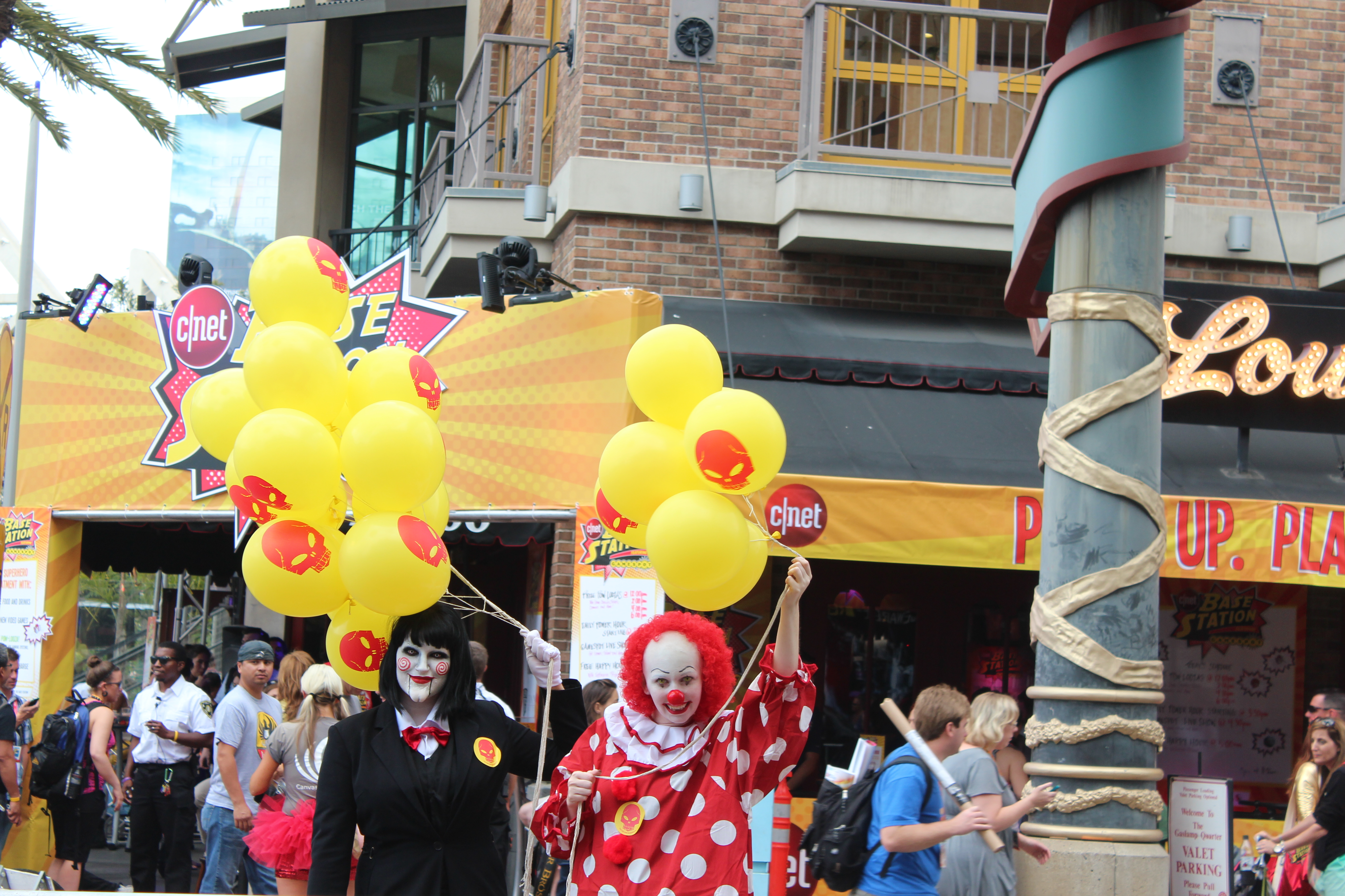 Jigsaw and Pennywise. Cosplay at San Diego Comic-Con (SDCC 2012).